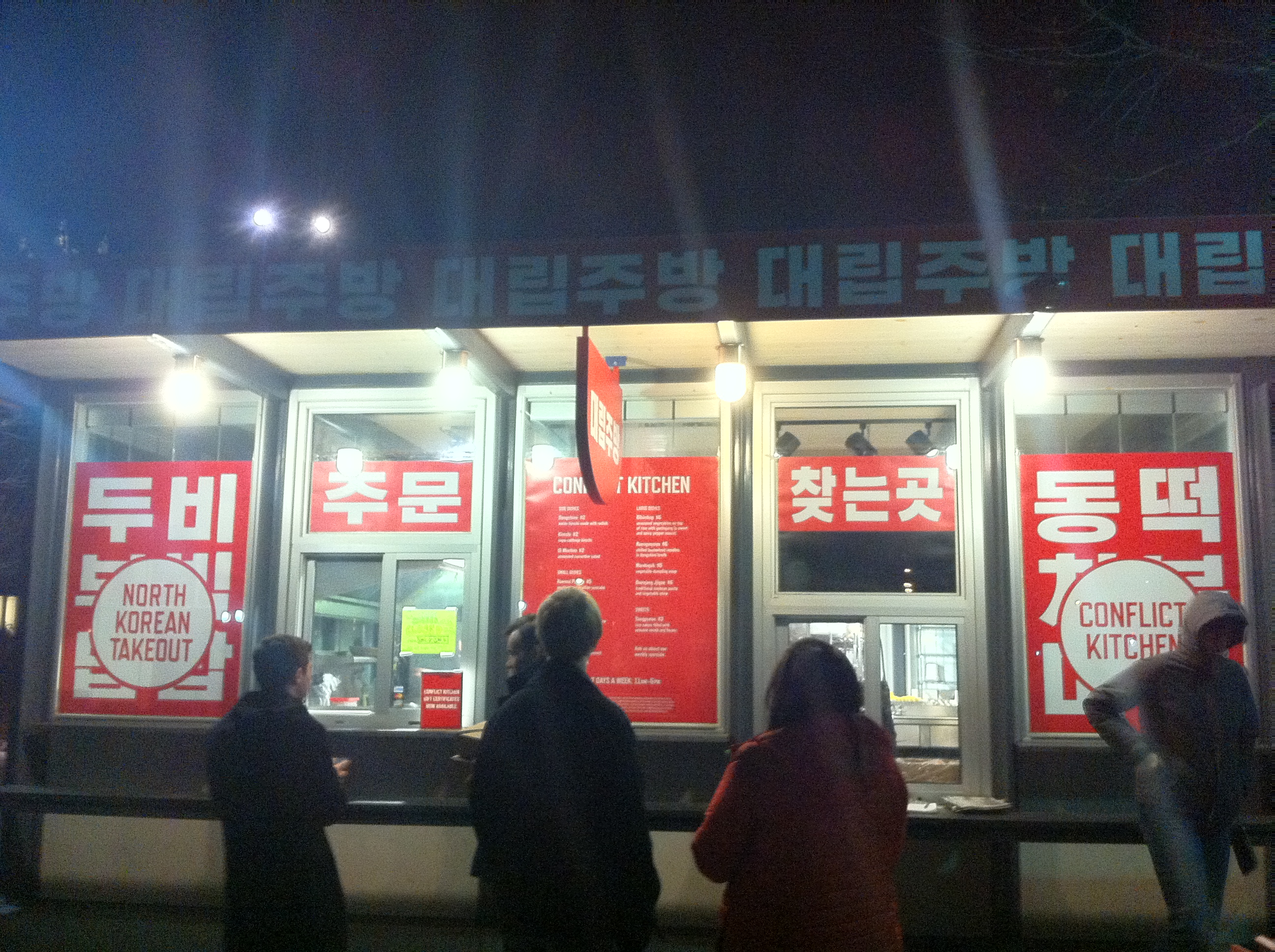 Conflict Kitchen, Schenley Plaza, Pittsburgh, at the time with North Korean theme.